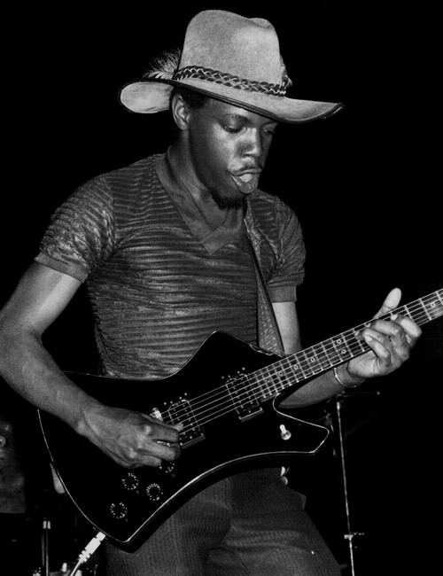 Guitarist Lurrie Bell in Paris, France